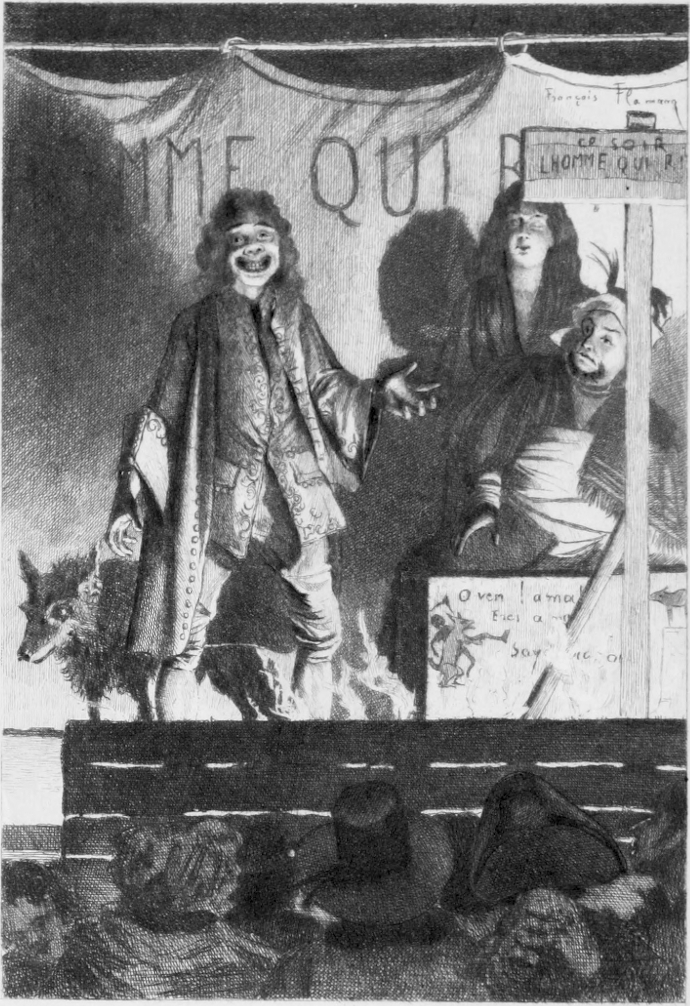 Frontispiece (vol. II) of Victor Hugo's novel The Man Who Laughs, International Limited Edition, published by Estes and Lauriat in 1869. Caption: At the Green Box.